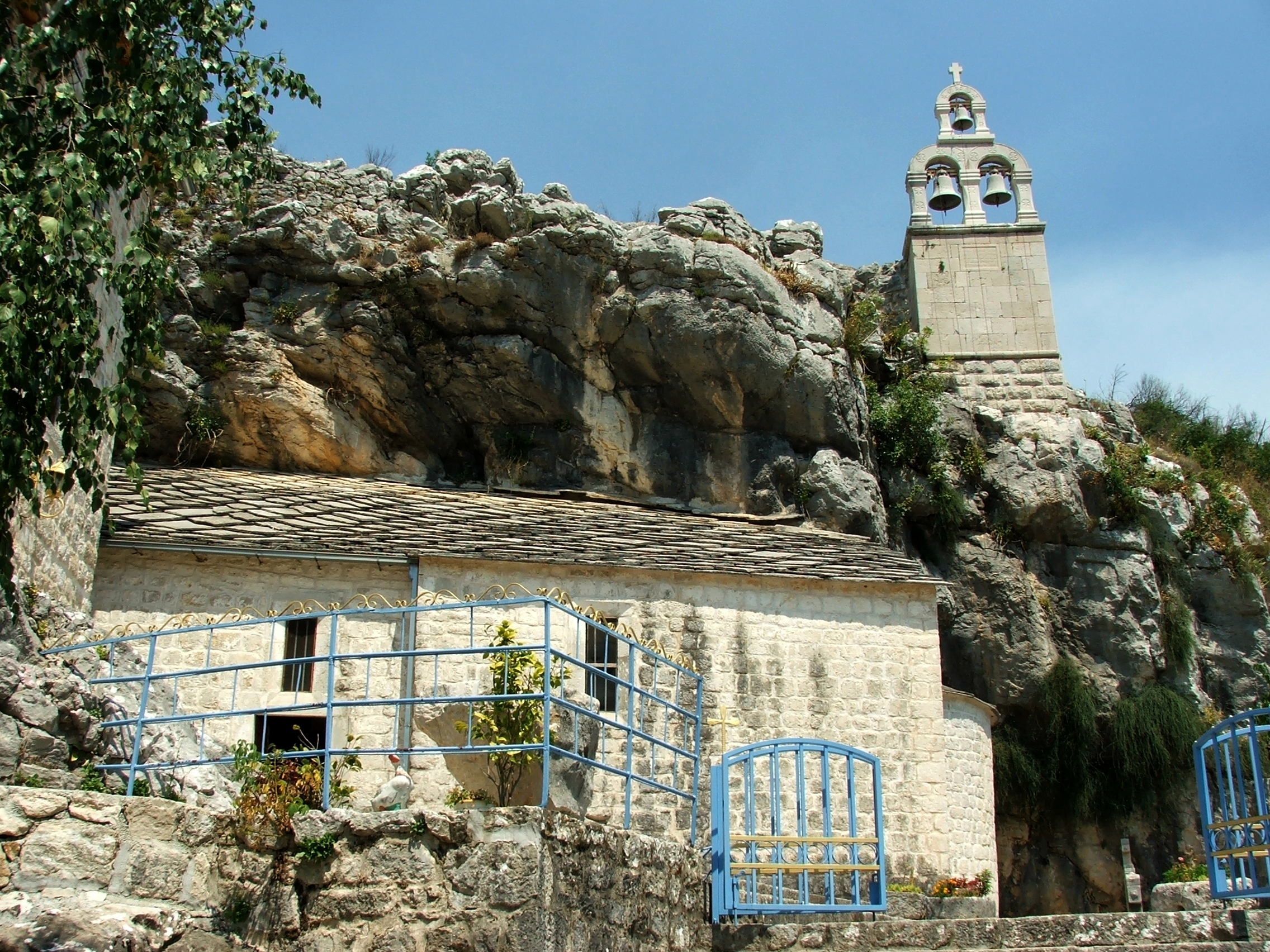 Zavala Monastery The Zavala Monastery is located in the immediate vicinity of Popovo Polje. The church relies on the natural cave, and its architecture is conditioned by this position. The church is dedicated to The Entry of the Most Holy Theotokos into the Temple. The interior of the church is painted with frescoes, which are the work of the famous Hilandar monk Georgije Mitrofanović, a great Serbian painter of the 17th century. In this monastery, novice was St. Basil of Ostrog. Српски (ћирилица): Манастир Завала Манастир Завала налази се у непосредној близини Поповог Поља. Црква се наслања на природну пећину, и њен изгед и архитектура условљени су овим положајем. Црква је посвећена ваведењу Пресвете Богородице. Унутрашњост цркве је живописана фрескама, које су рад познатог хиландарског монаха Георгија Митрофановића, великог српског зографа 17. века. У овом манастиру искушеник је био Свети Василије Острошки. NKD610 - Манастирска црква Ваведења, Завала